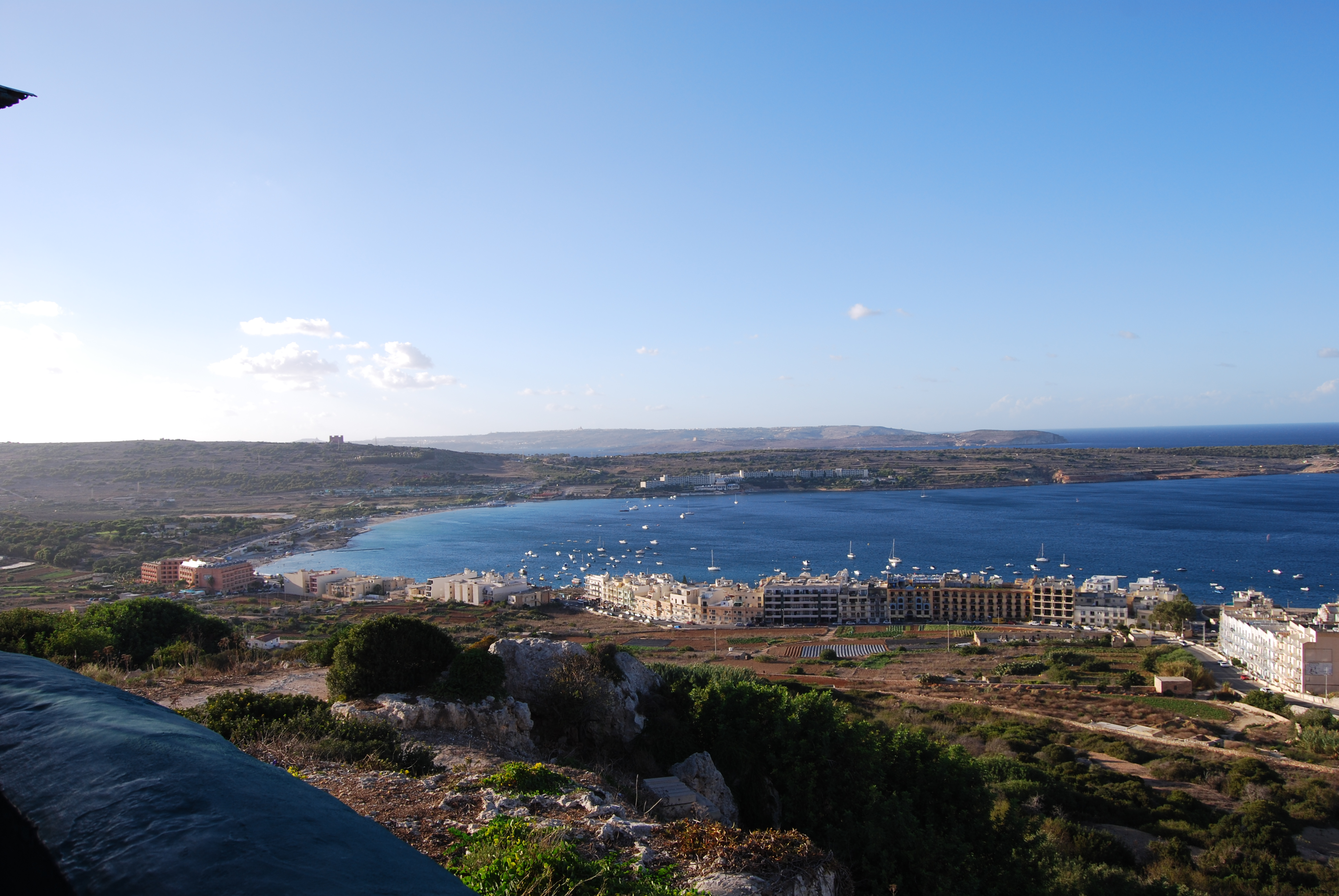 View to the beach in the golf of Mellieħa, MaltaEsperanto: Rigardo al la strando en la golfo Mellieħa, Malto